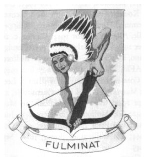 Emblem of the 311th Fighter Group (World War II)